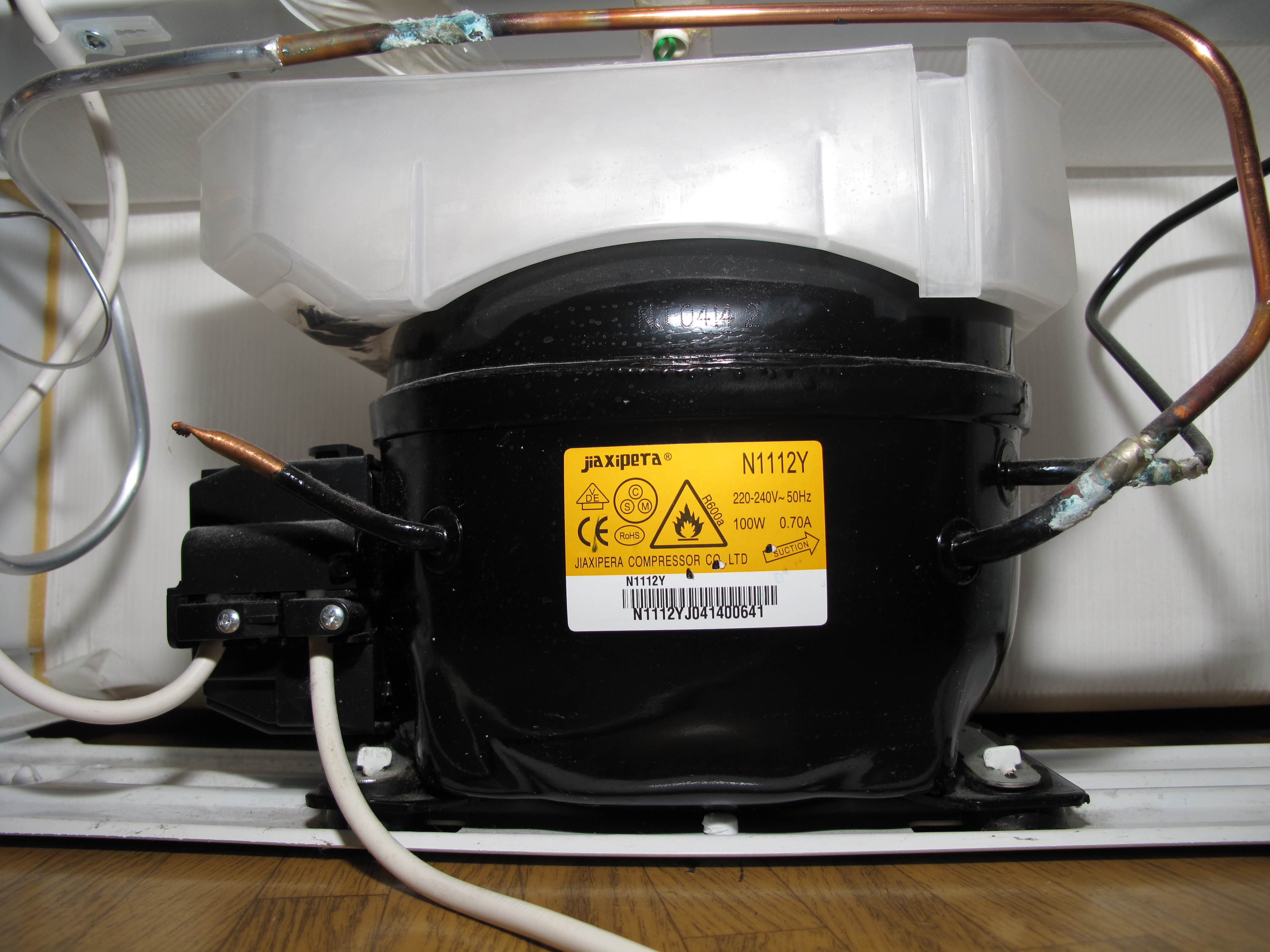 Compressor and evaporation dish of Zanussi fridge, type ZRA 319 SW.